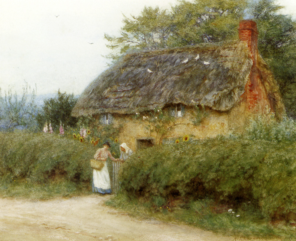 Helen Allingham (26 September 1848 - 28 September 1926), was a well-known watercolour painter illustrator of the Victorian era. A Cottage With Sunflowers